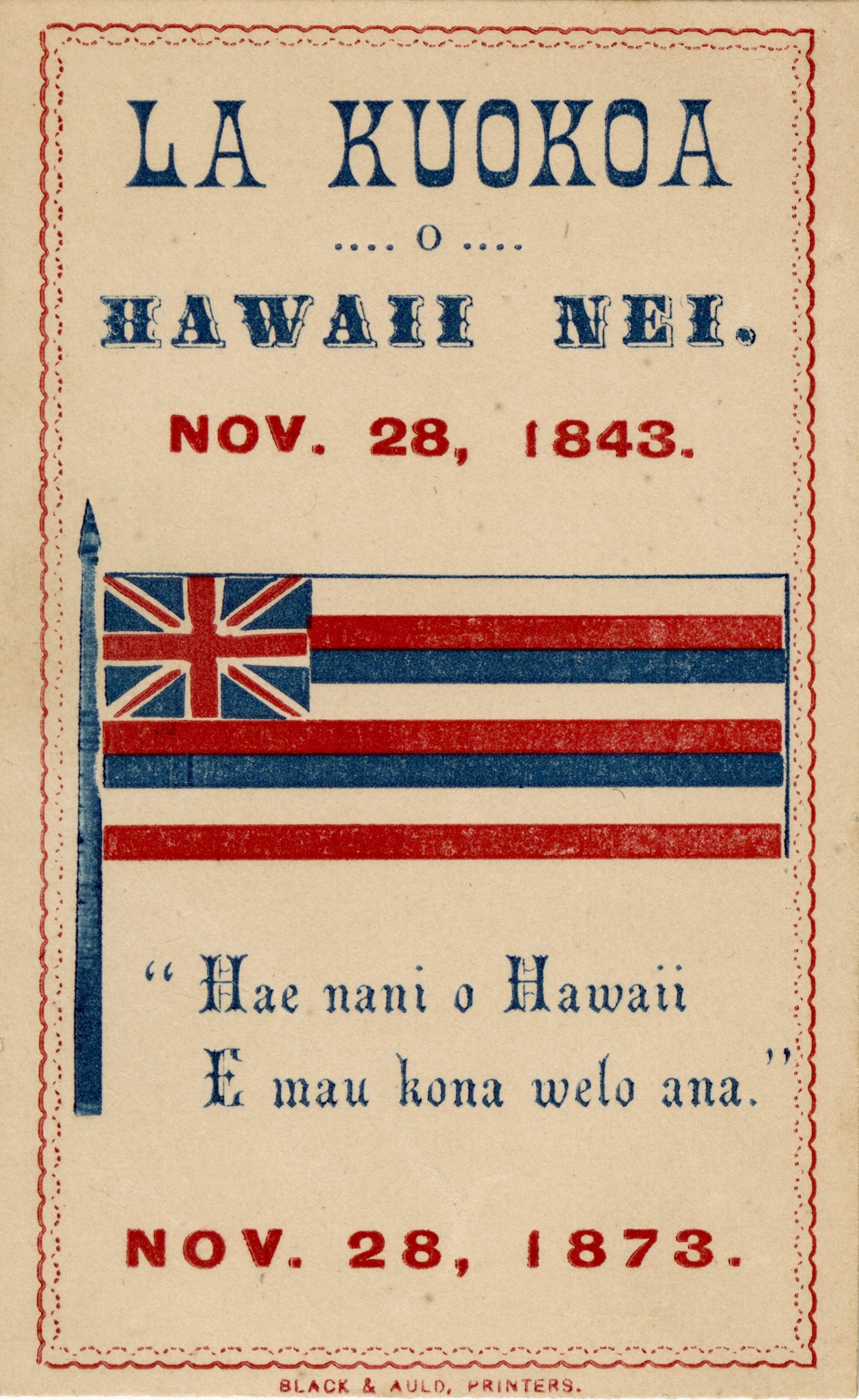 Cover of a flier printed in 1873 for the 30th anniversary of the Anglo-Franco Proclamation of November 28, 1843,in which Britain and France recognized the Kingdom of Hawaii as an independent nation.